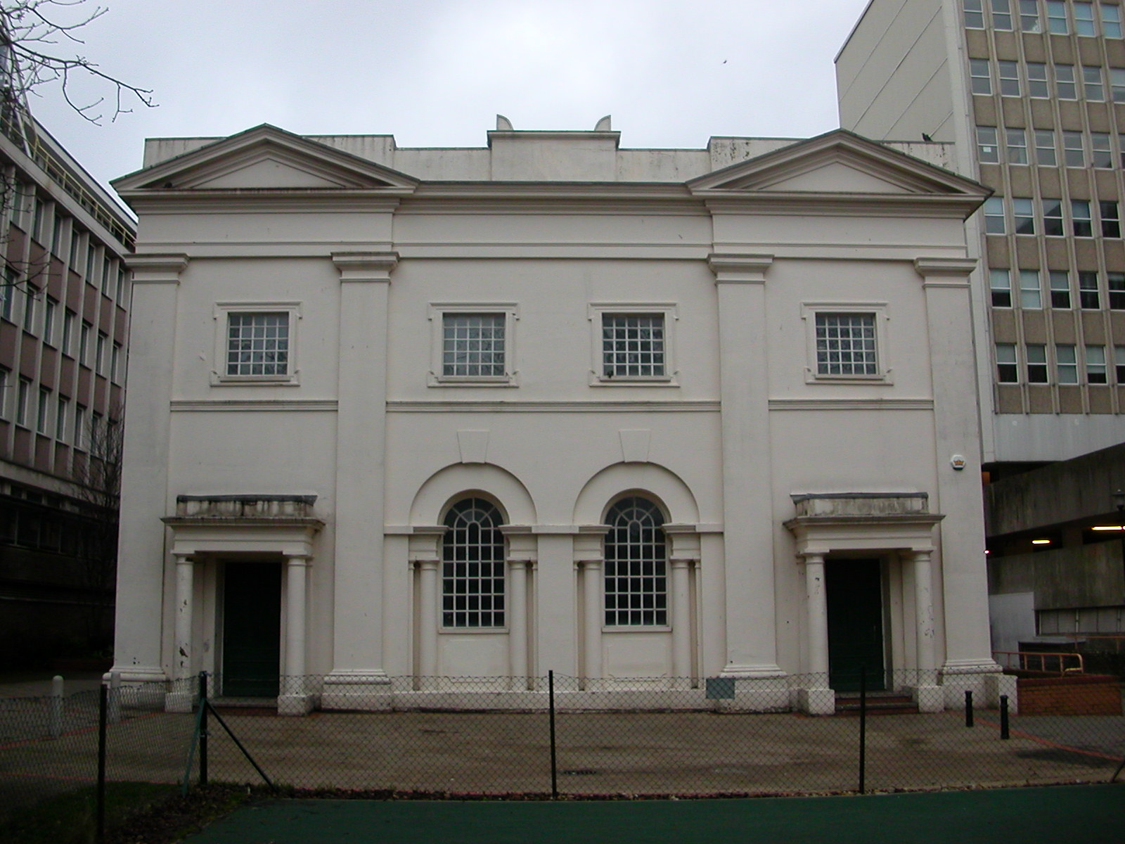 Hanover Chapel, North Road, Brighton, England, seen from the south. A former Independent and Presbyterian chapel, now part of Brighthelm United Reformed Church.